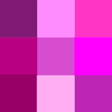 palette of varieties of magenta